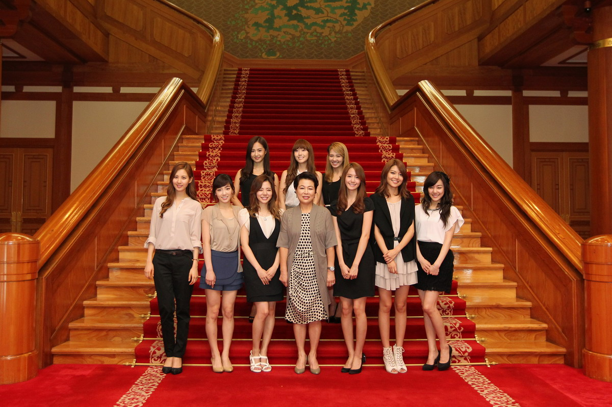 First lady Kim Yoon-ok (C) and pop group Girls' SNSD, Generation pose for a photo at the presidential office Cheong Wa Dae on Aug. 19. The members of the popular girl group were appointed promotional ambassadors for the Visit Korea Year 2010-2012 campaign on Aug. 11. The first lady serves as an honorary chairwoman for the three-year government program aimed at attracting more foreign visitors.